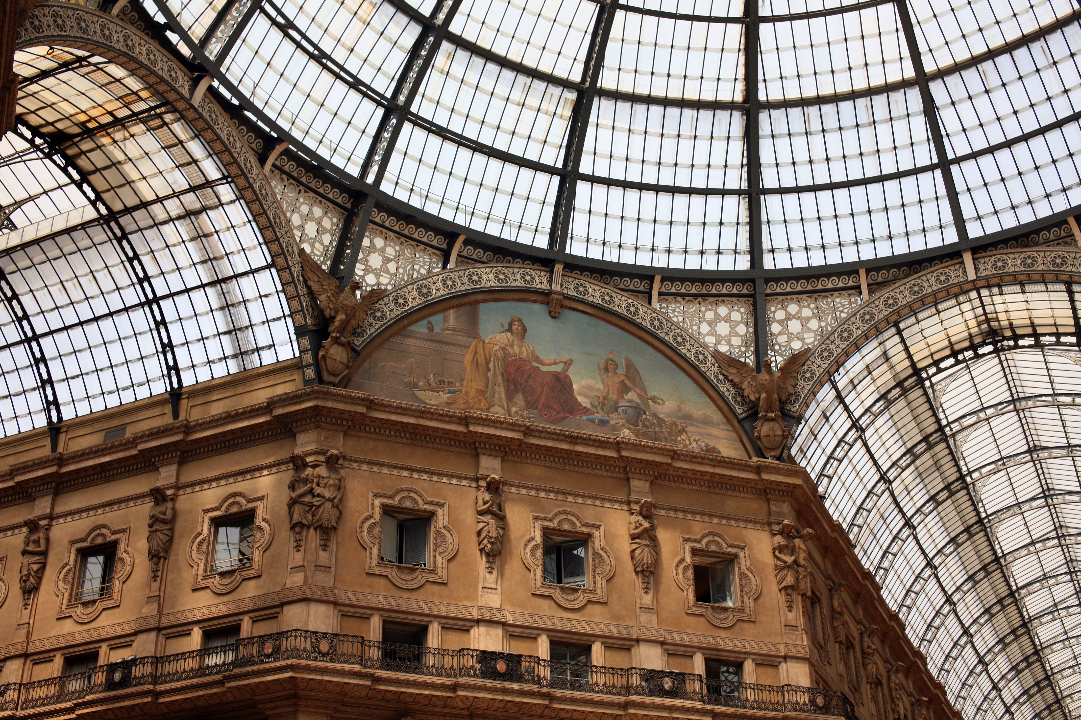 Galleria Vittorio Emanuele II (Milan)